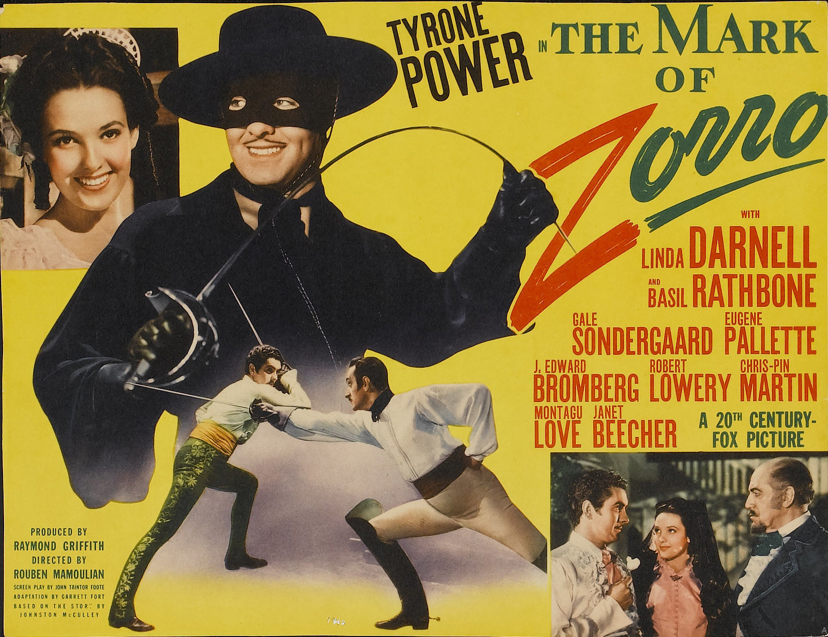 Title lobby card for the 1940 film The Mark of Zorro.